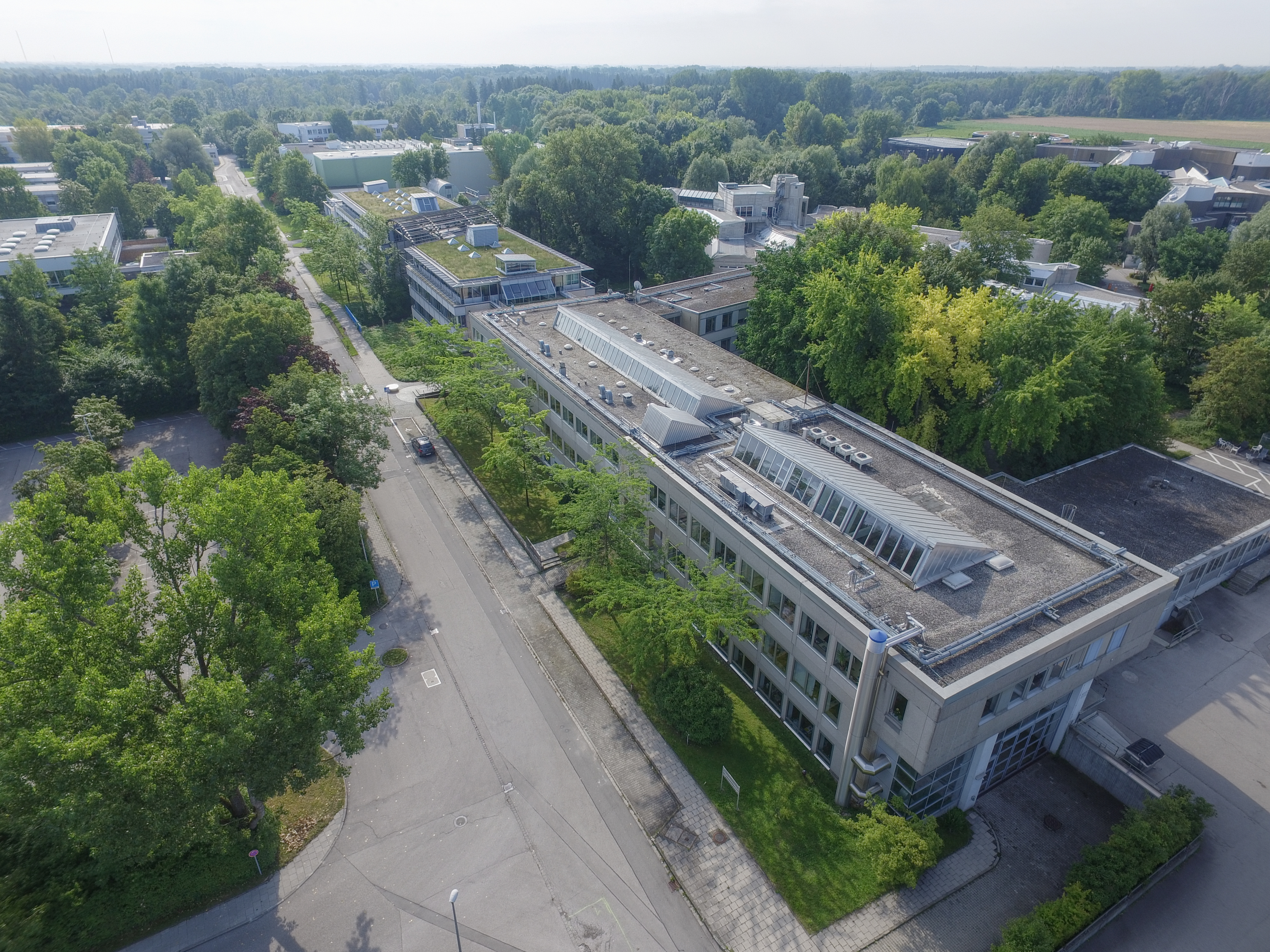 Max Planck Institute for Extraterrestrial Physics (MPE), aerial view